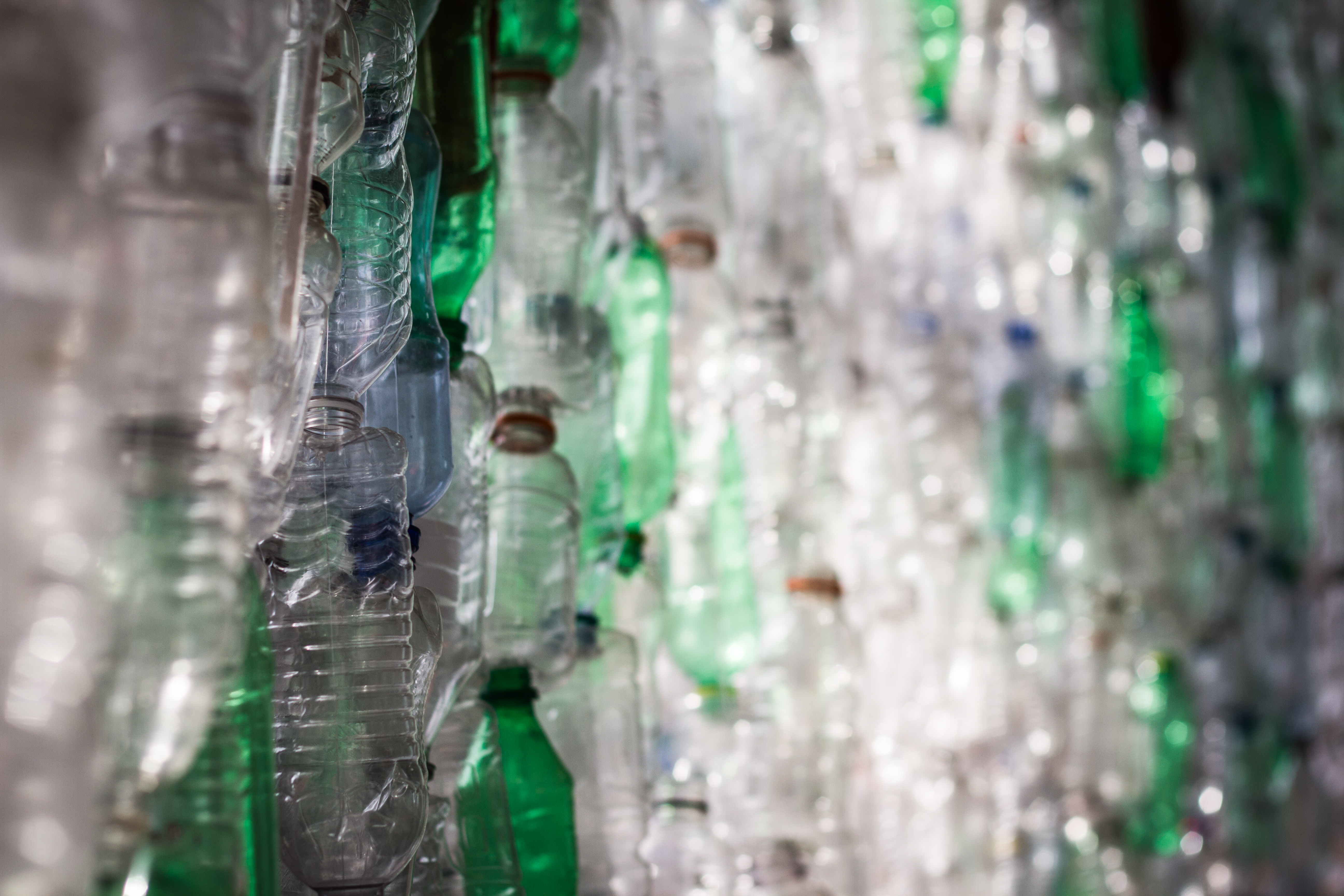 ‘Bottle Buyology’ at the Minnesota State Fair ‘Eco Experience’ Building